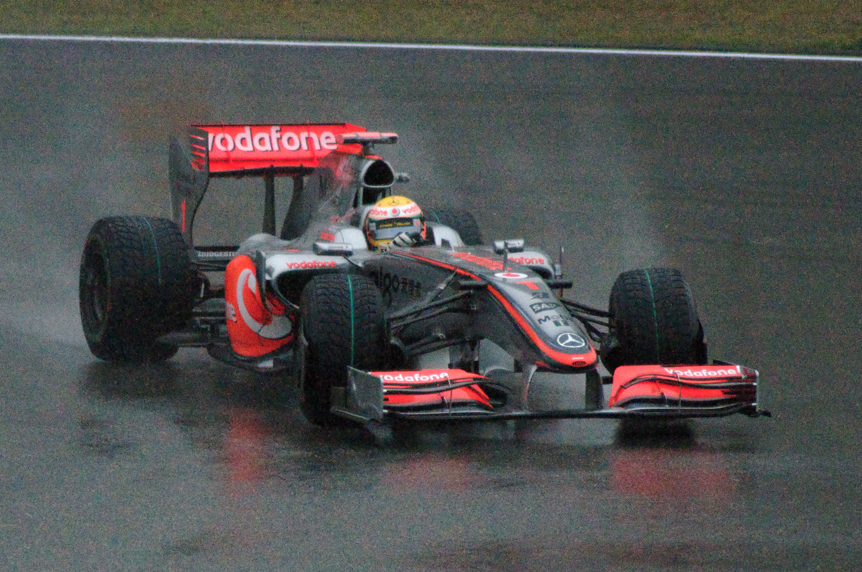 Lewis Hamilton driving for McLaren at the 2009 Chinese Grand Prix.